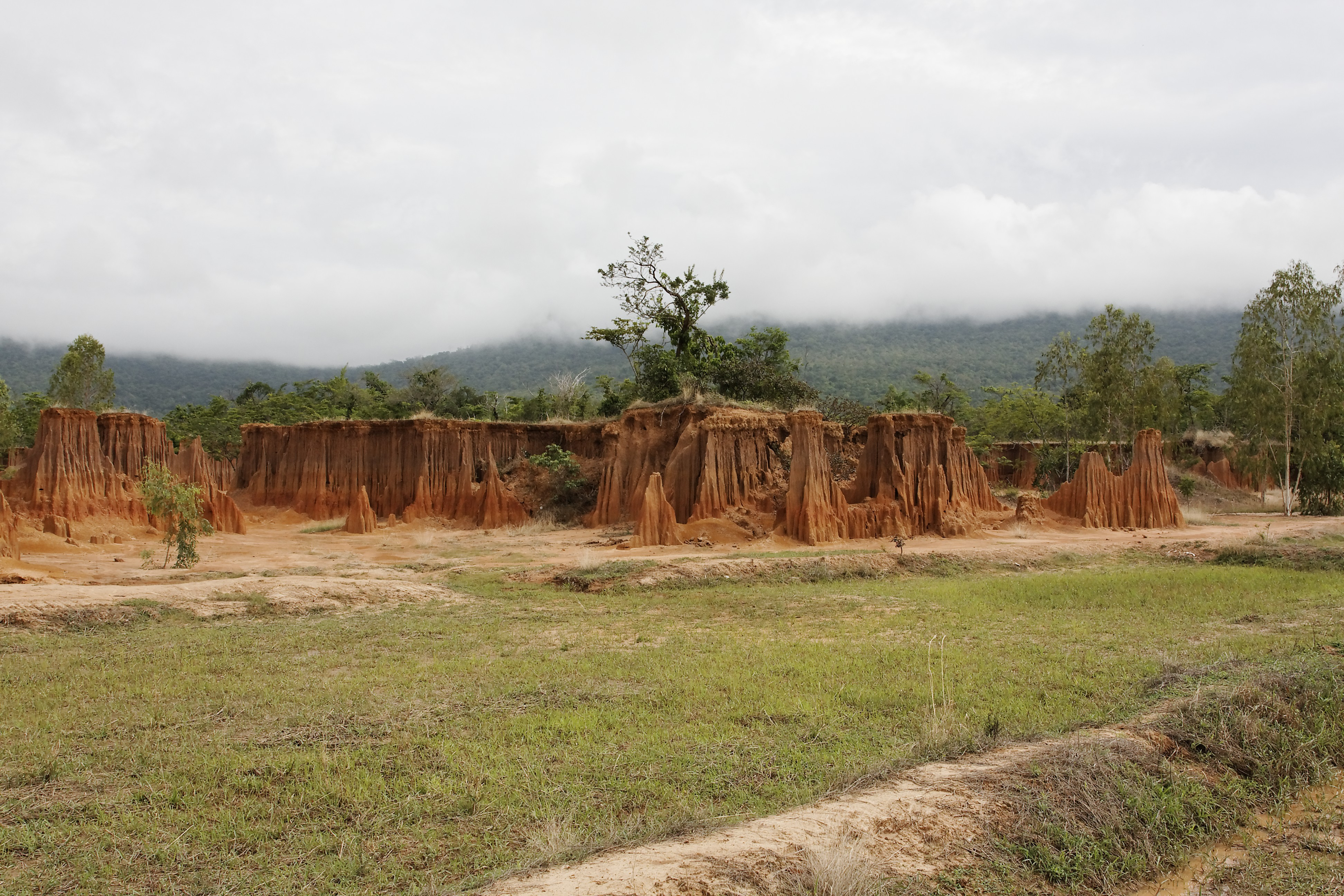 Lalu is a natural attraction of Sakaeo, Thailand. It is located in BanKlong Yang , Tambon Tapraj. “Lalu” is a Khmer word meaning “pierced”, due to the natural phenomenon of spectacular rock formations caused by a shallow depression in the ground where soil erosion has produced strange shapes like city wall, cliff, rocket and others also found in “Phae Muang Phi” of Phrae Province. For this reason, Lalu is also known as “New Phae Muang Phi”.